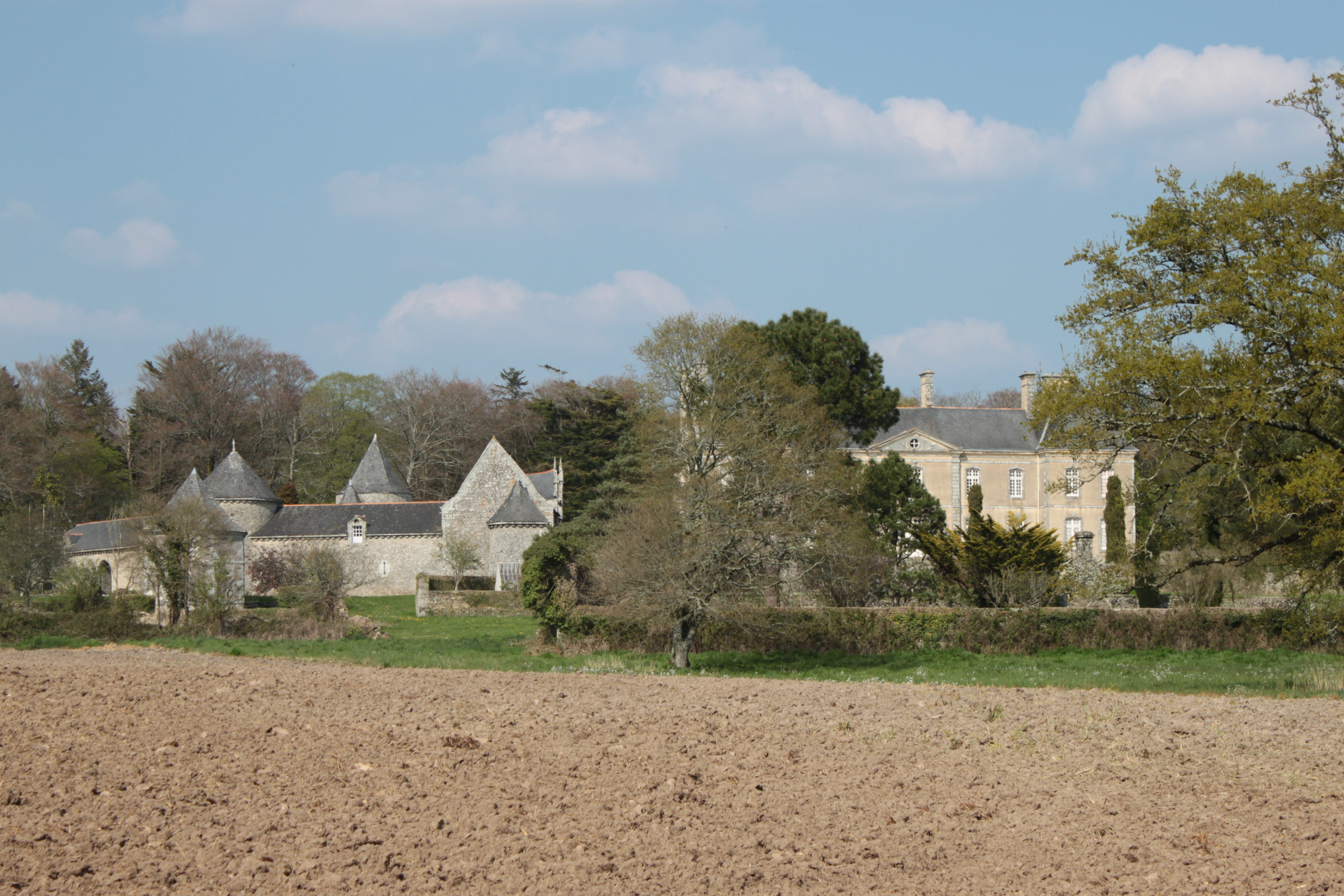 Trémohar castle, Fr-56-Berric.